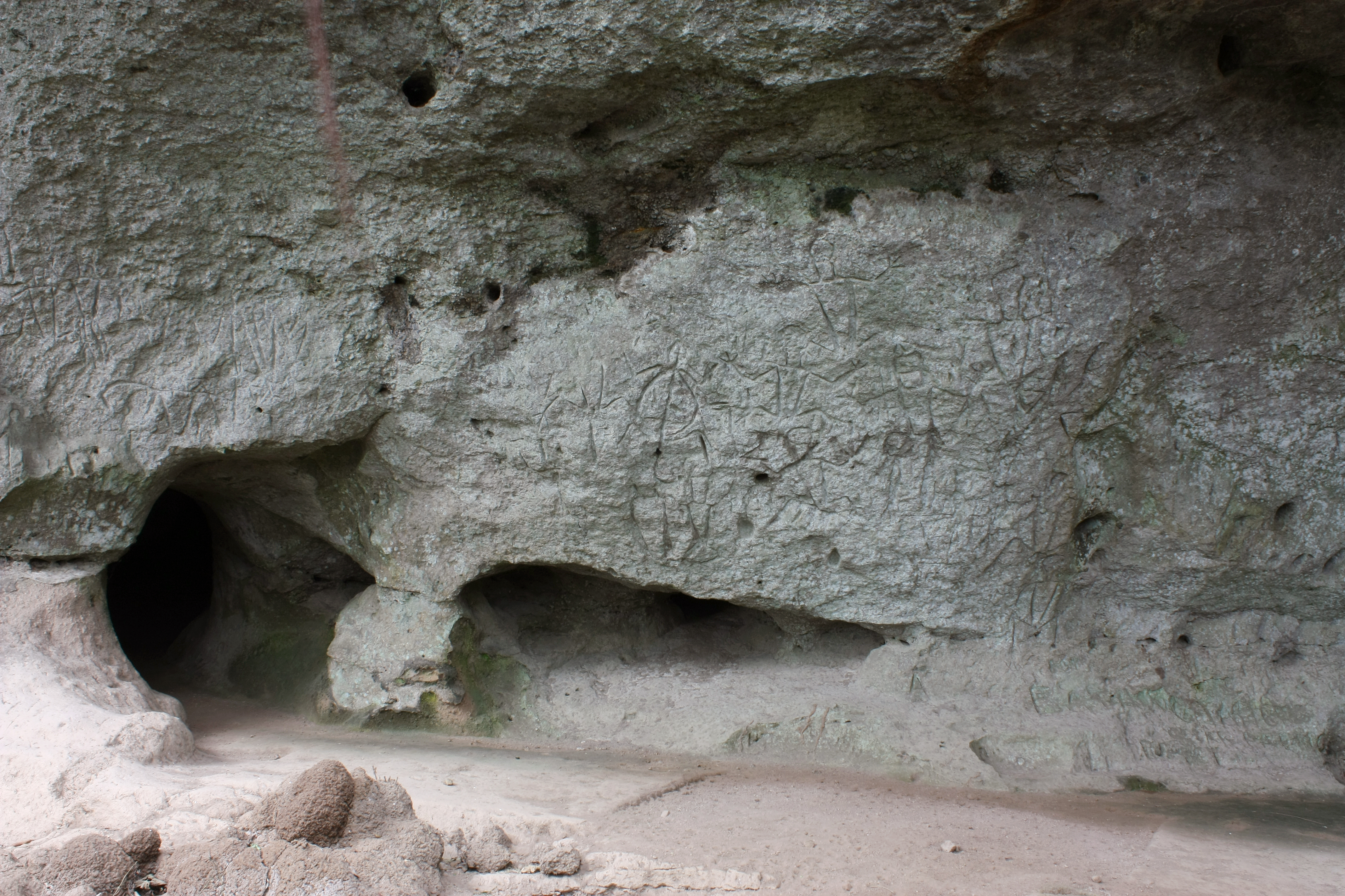 Turnsout, the 127 stylized human and animal figures (frogs and lizards) engraved on the rockwall dated back to 3000 BC. Along with other designs that may have depicted other interesting figures, erosion may have caused it to deteriorate.